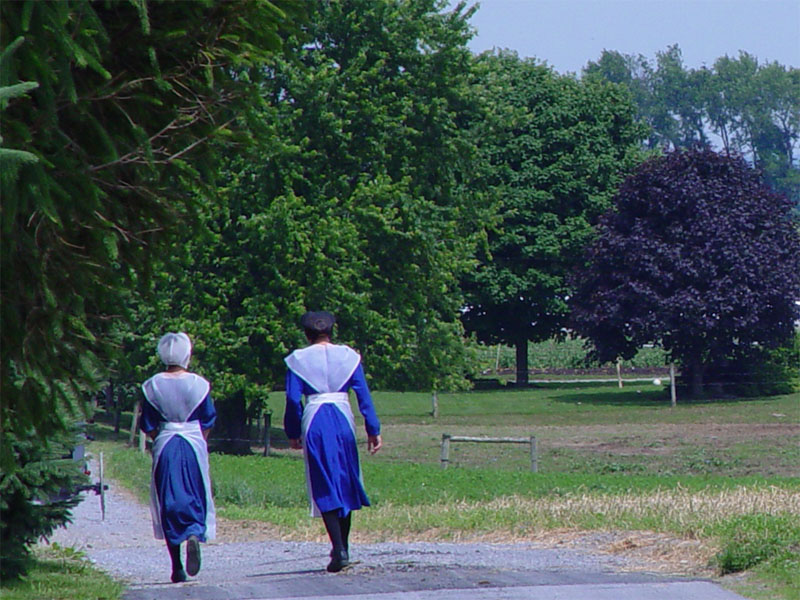 Two Amish girls in traditional attire, Lancaster County